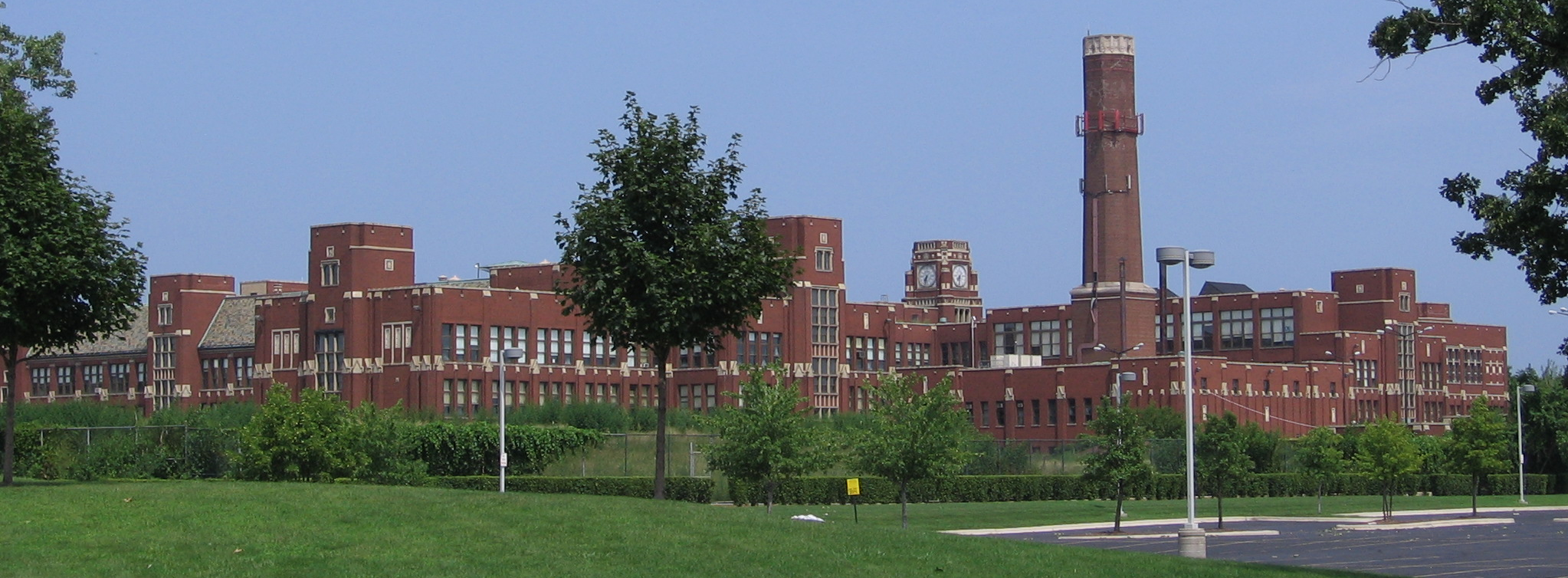 This is a photograph of Lane Tech High School, a public secondary school in Chicago, Illinois. The photograph is taken from across Rockwell Avenue, looking toward the rear and western elevations of the school.